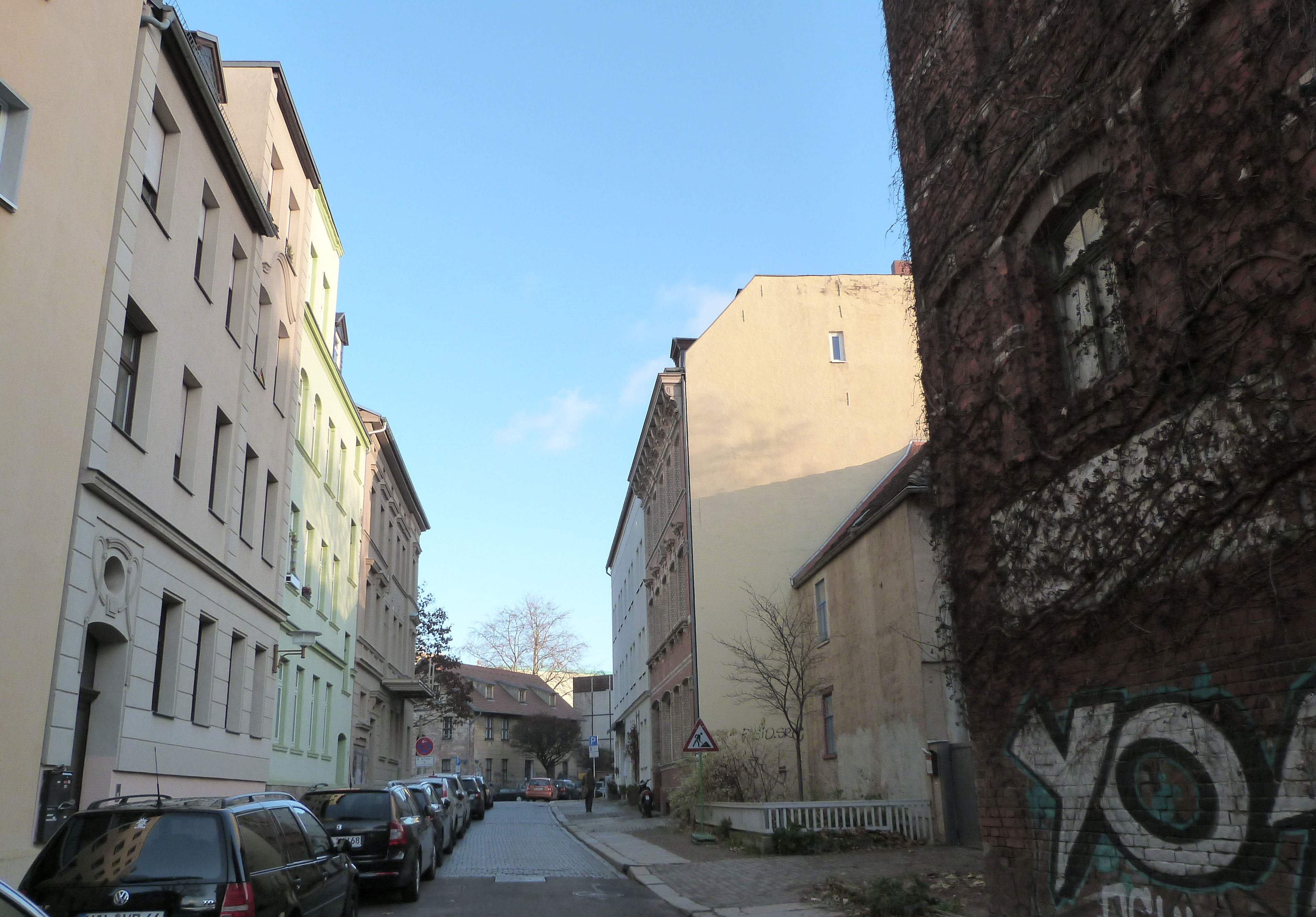 Breite Strasse in halle (Saale), Saxony-Anhalt